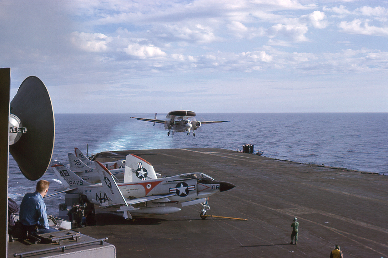 A U.S. Navy Grumman E-1B Tracer AEW plane of airborne early warning squadron VAW-12 Det.42 Bats just before landing on the aircraft carrier USS Franklin D. Roosevelt (CVA-42), in 1962/63. VAW-12 Det.42 was assigned to Attack Carrier Air Wing 1 (CVW-1) aboard the FDR for a deployment to the Mediterranean Sea from 14 September 1962 to 22 April 1963. A McDonnell F-3B Demon of fighter squadron VF-14 Top Hatters is visible in the foreground.